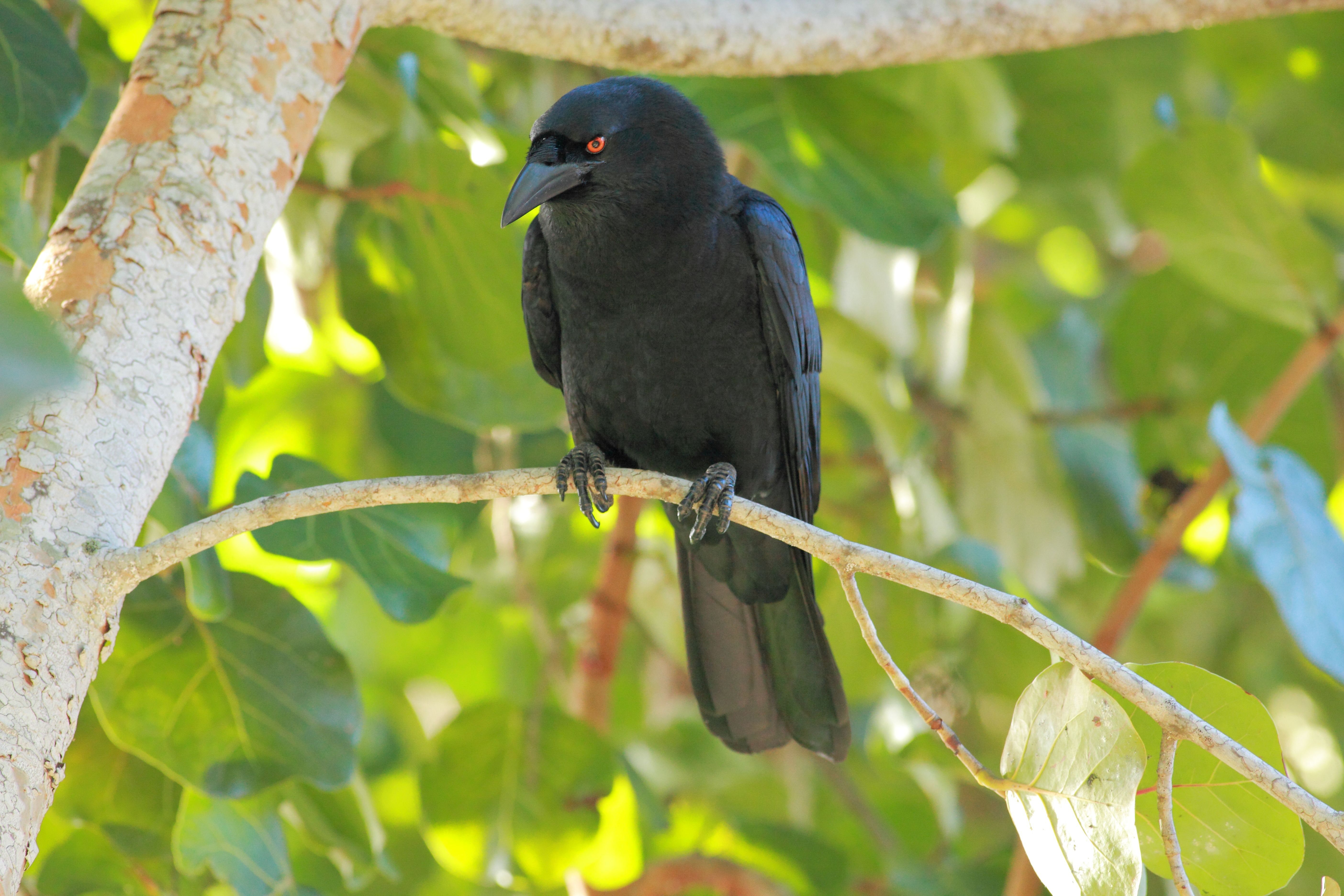 White-necked Crow Corvus leucognaphalus. Dominican Republic, near La Romana.